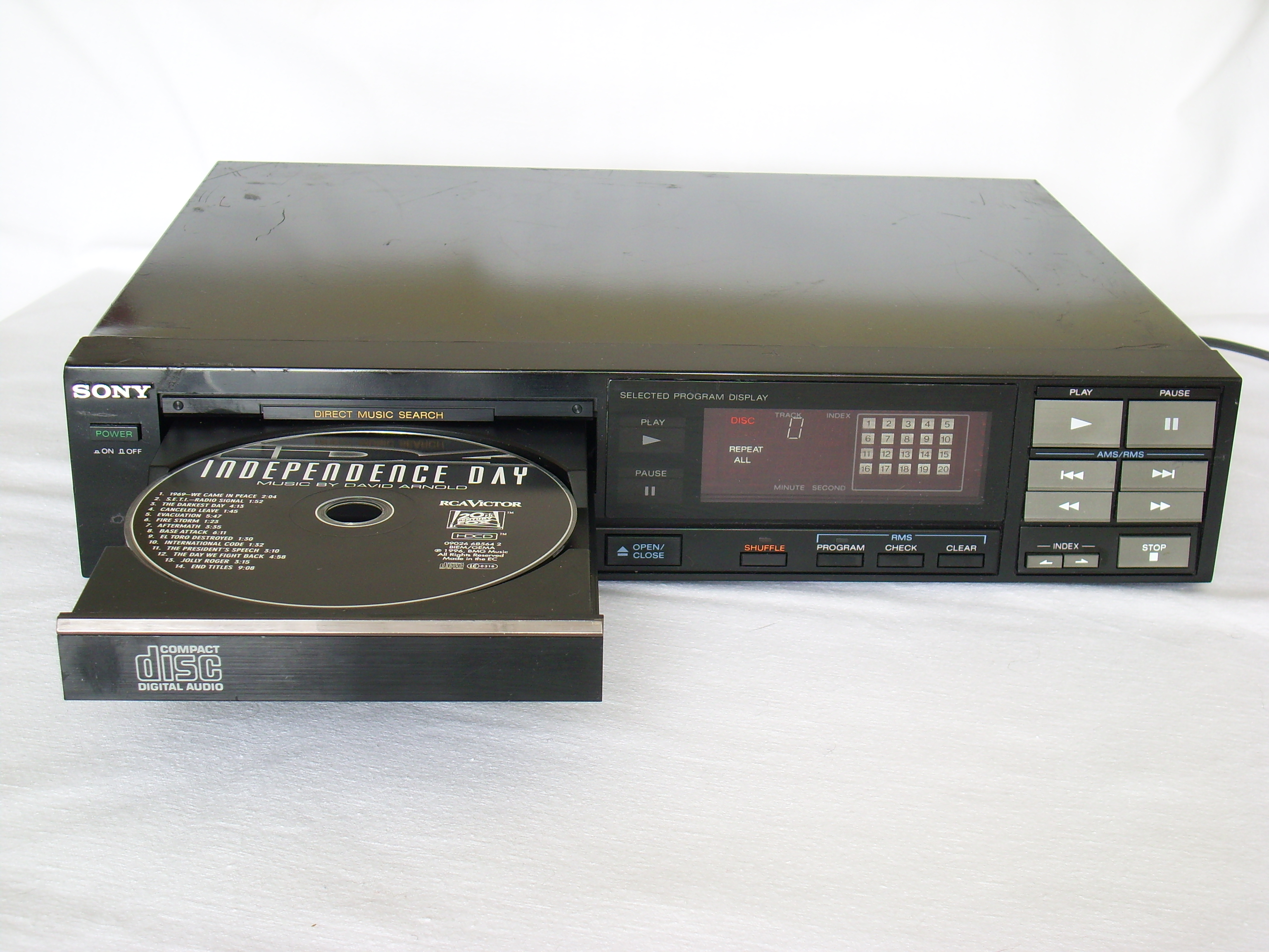 Sony CDP-35 Compact Disc Player from 1986 DAC - PCM54HP J